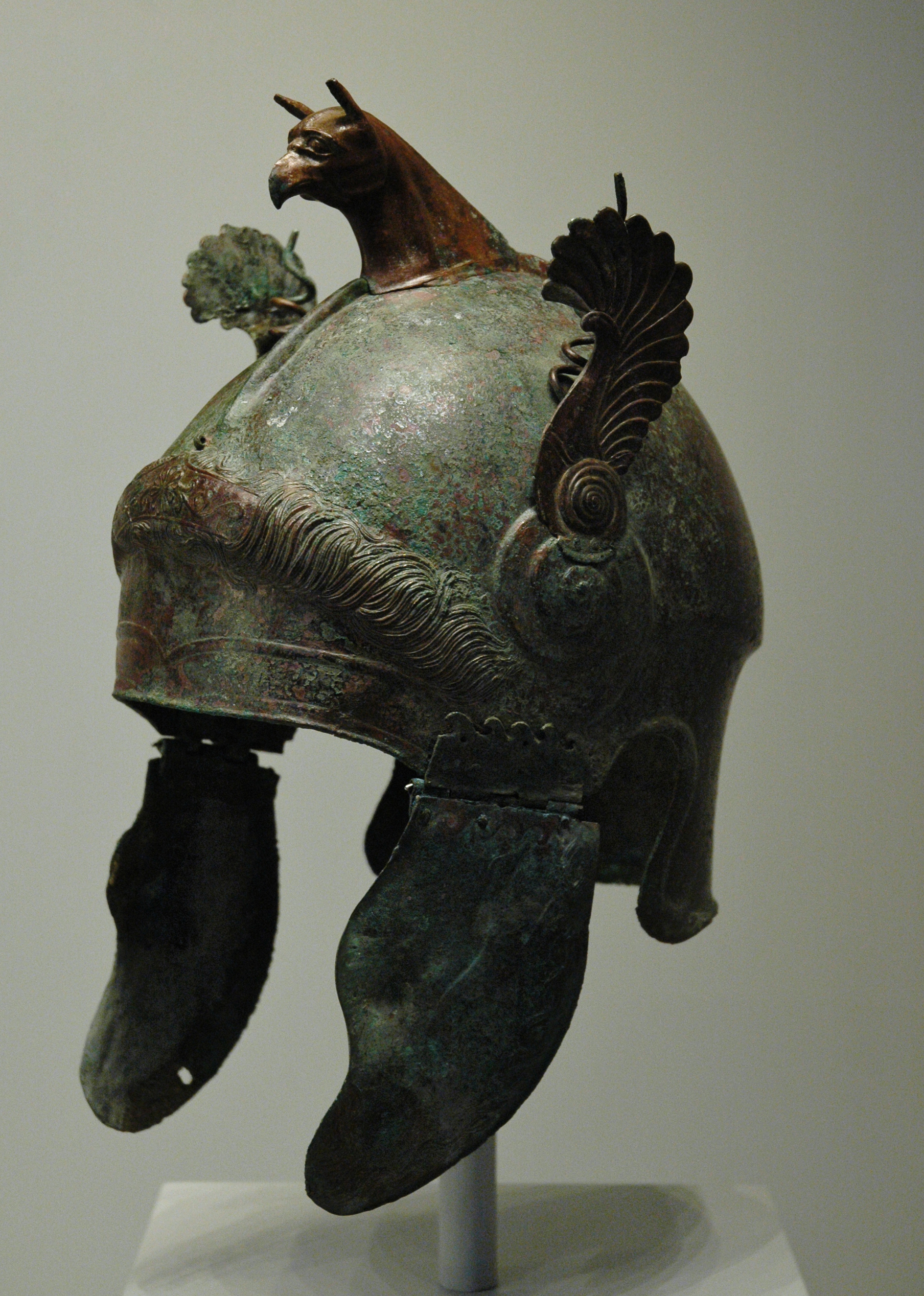 Greek helmet made in South Italy, 350-300 BC. Bronze. The elaborate decoration on this helmet suggests that it was strictly ceremonial and not intended to be worn into battle. Details added in relief and incision include eyebrows, hair curls over a diadem (headband), and cheek guards adorned with side locks and a striding animal. The crowning griffin'shead, wings, and spiraled feather holders were added last.